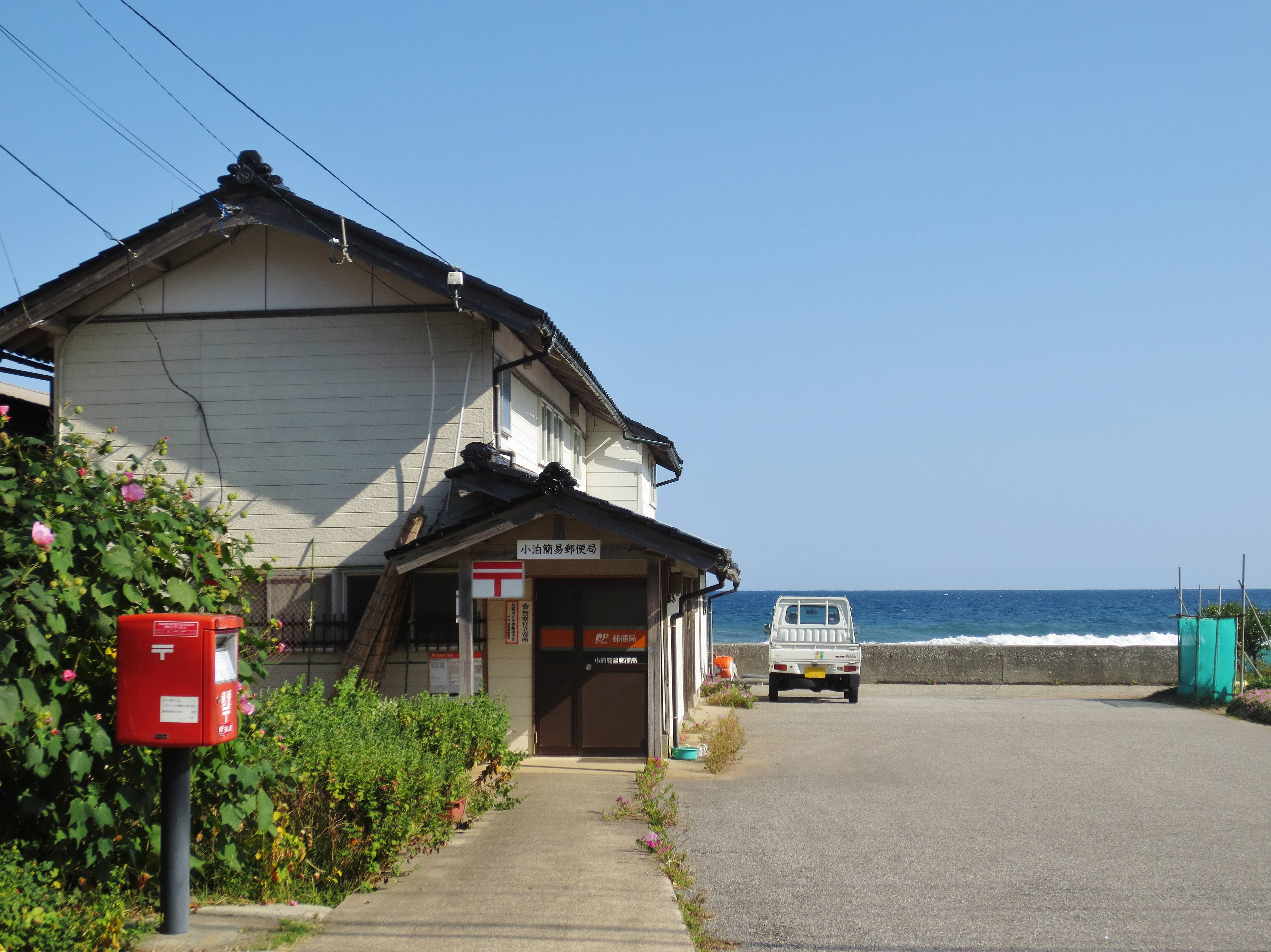 Kodomari simple post office.